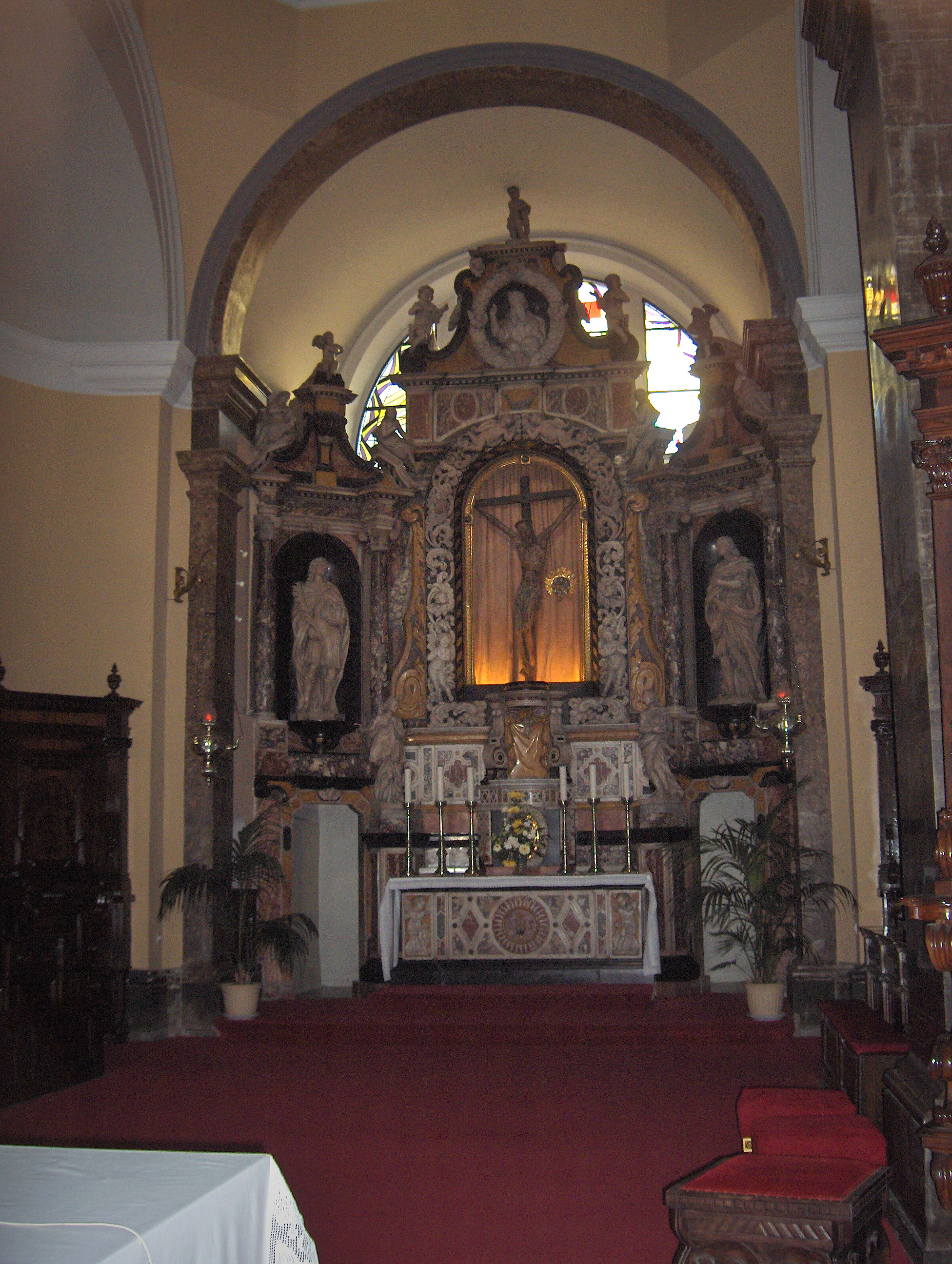 Main altar (by Pasqualino Lazzarini, 1712) with the miraculous crucifix (Gothic, about 1300); Saint Vitus Cathedral; Rijeka, Croatia